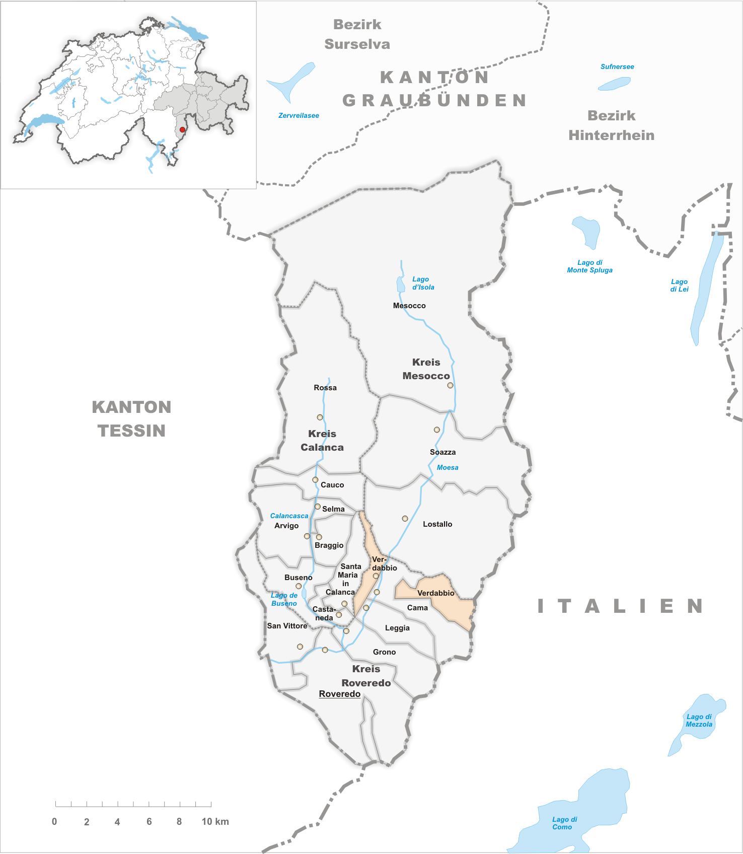 Municipality Verdabbio